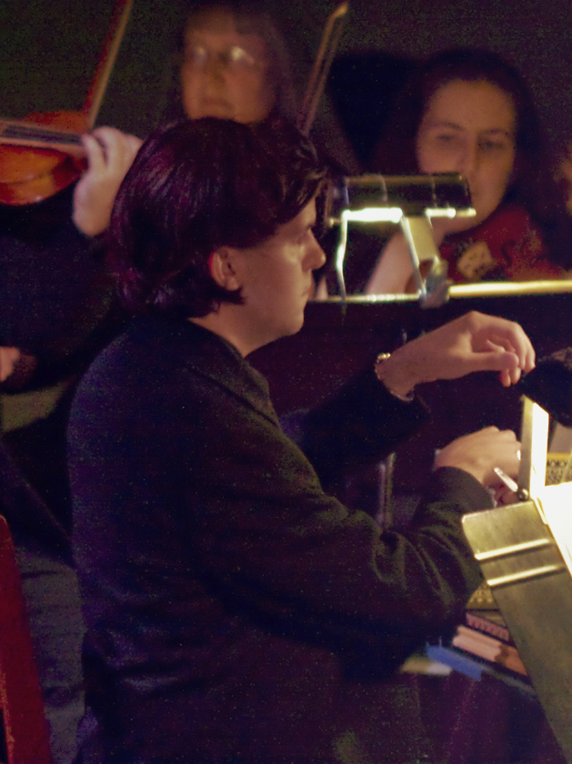 John Austin Clark on harpsichord in the Bourbon Baroque concert Thunder and Dance on Saturday, September 20, 2008 in Louisville, Kentucky. Bourbon Baroque is a period instrument ensemble based in Louisville, performing works from the 17th and 18th centuries.